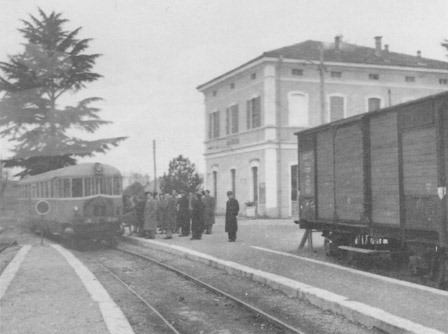 Soresina railway station in 1956